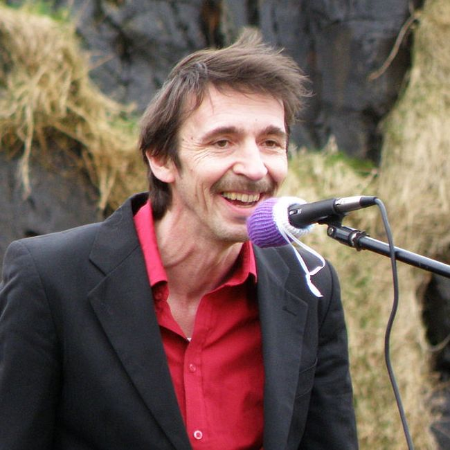 Every year on 12 March the Faroese people celabrate the return of their national bird the oyster catcher, in Faroese called Tjaldur, the day is called Grækarismessa. In some villages they gather to celabrate it with speeches and song. This was in Vágur in Suðuroy, the day before Grækarismessa, on a square in town called Minnisvarðin. The event always starts with a procession by the local scouts (skótarnir). Johan Dalsgaard held a speech and the choir Ljómur sang a few songs. Føroyskt: Grækarismessuhald við Minnisvarðan í Vági hin 11. mars 2012. Kirkjukórið Ljómur sang, Johan Dalsgaard (eisini kendur sum Johan í Fámara og Johan í Kollafirði) helt grækarismessurøðuna.